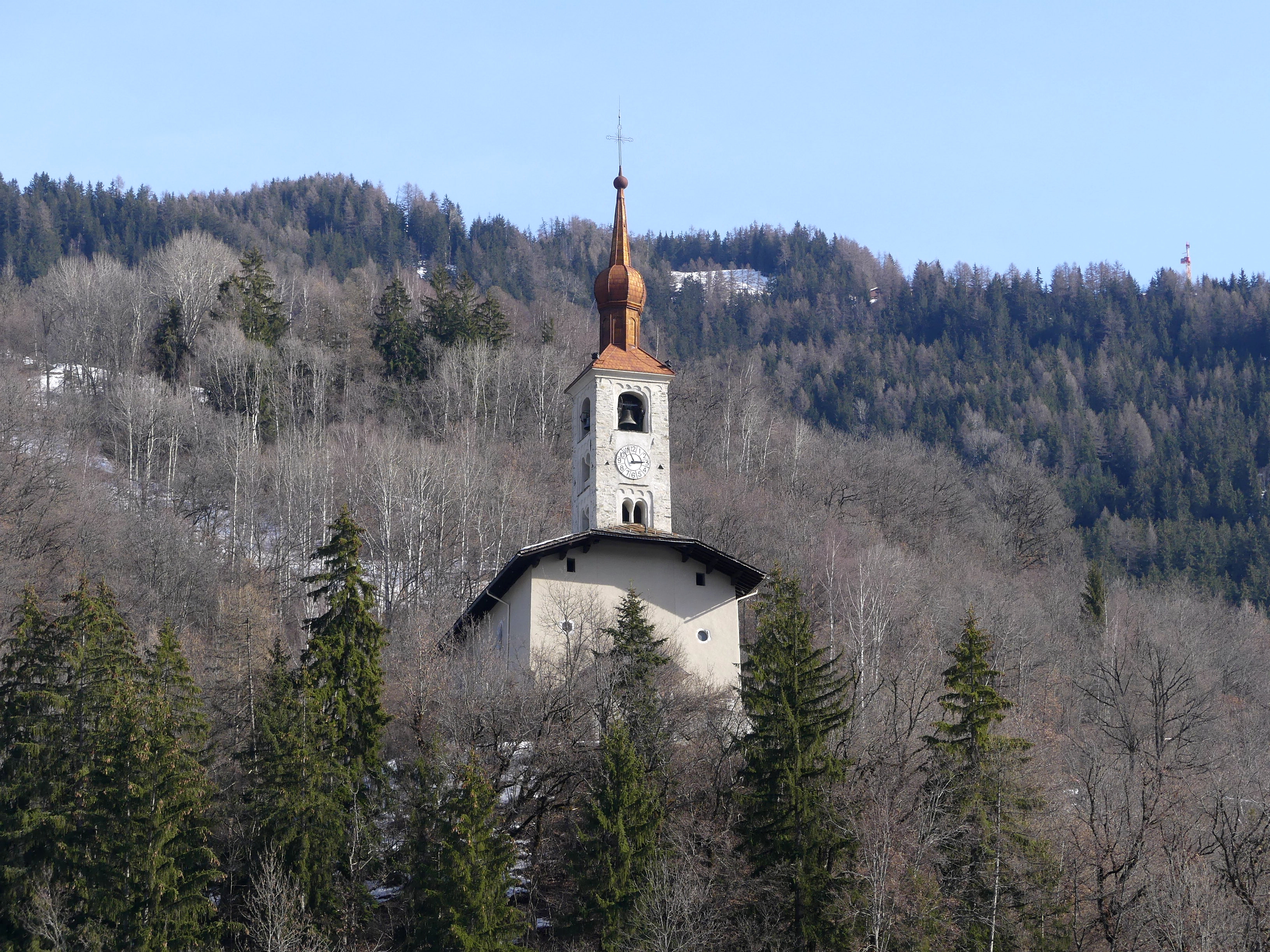 Sight of Saint-Michel church of Landry, in Savoie, France.